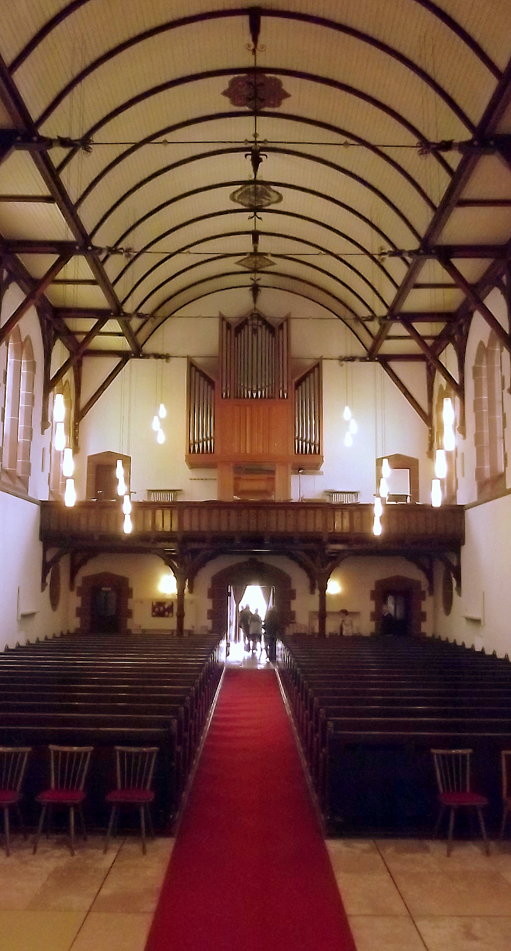 Interior of the protestant church in Friedrichsthal, Saarland, Germany